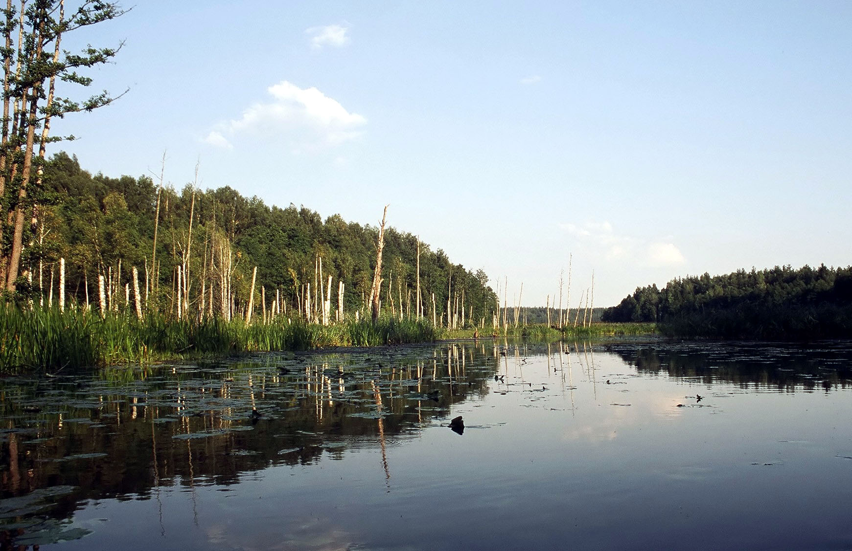 Fixed version of Image:Rospuda river1.jpg